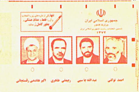 Ballot paper of Iran Presidental Elections 1993